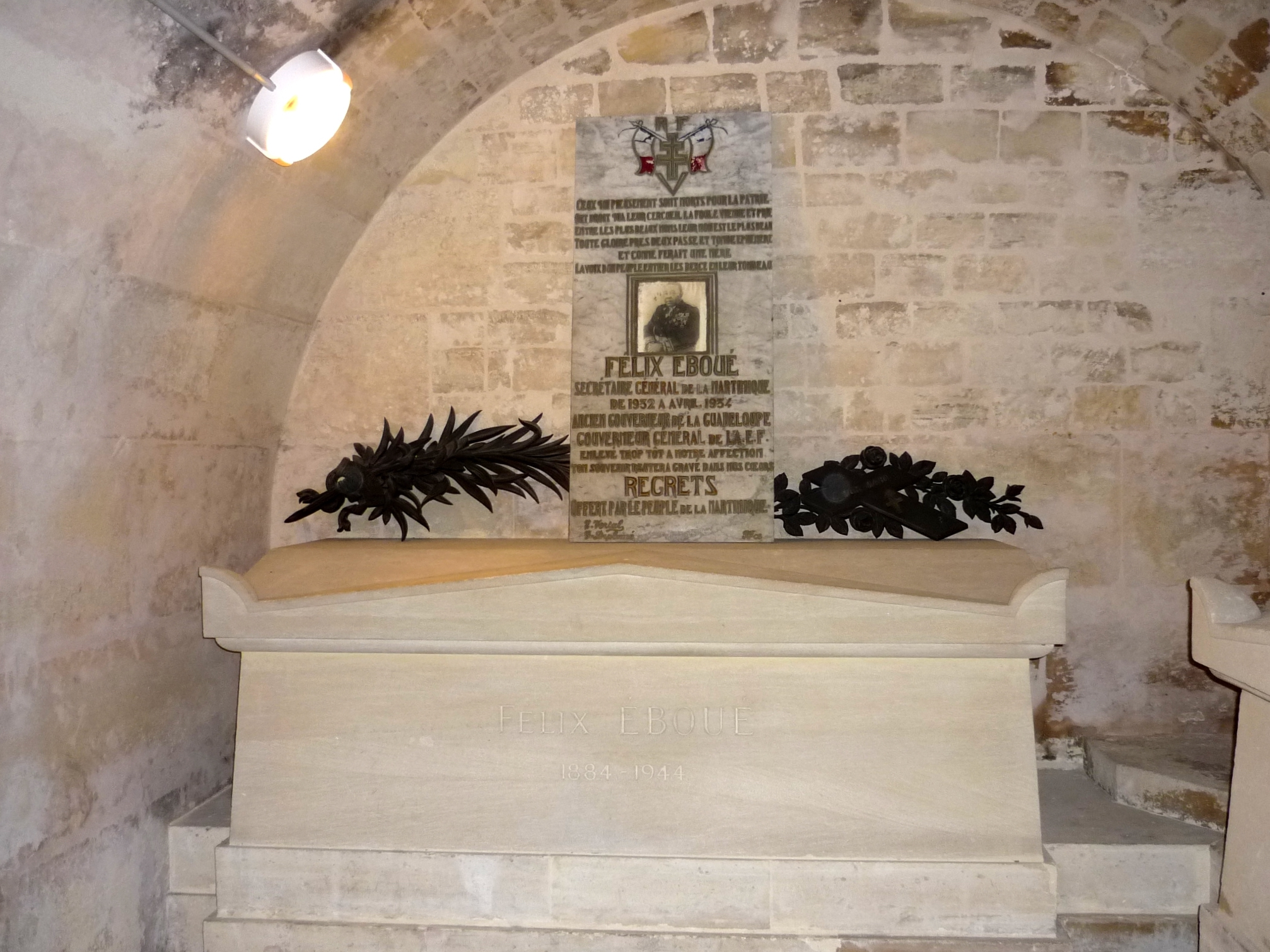 Felix Eboué's graves, Panthéon, Paris, France